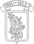 Emblem of Blue Sisters of Castres, from a document of the congregation, ca. 1900